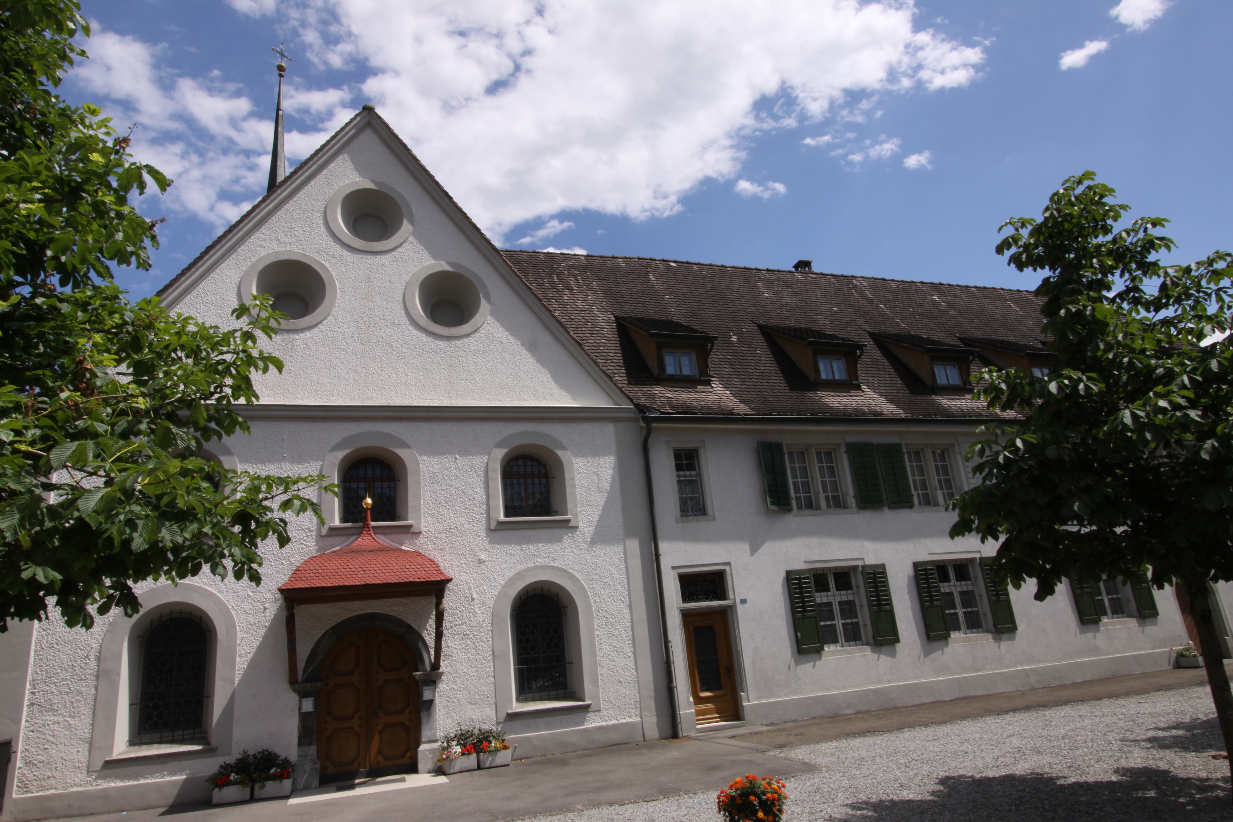 Musical Collection of the Frauenkloster, Brünigstrasse 157, Sarnen